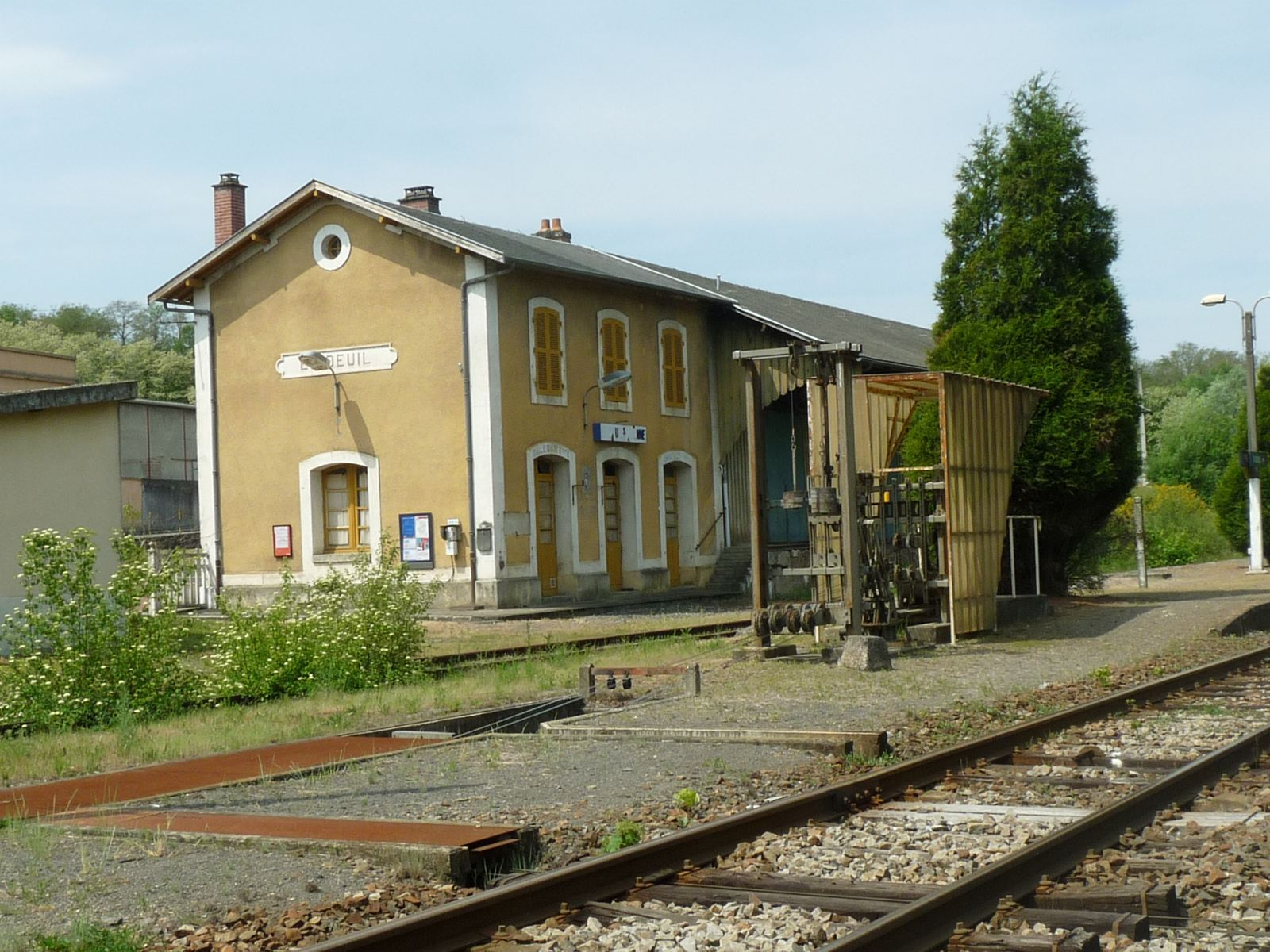 station of Exideuil, Charente, SW France